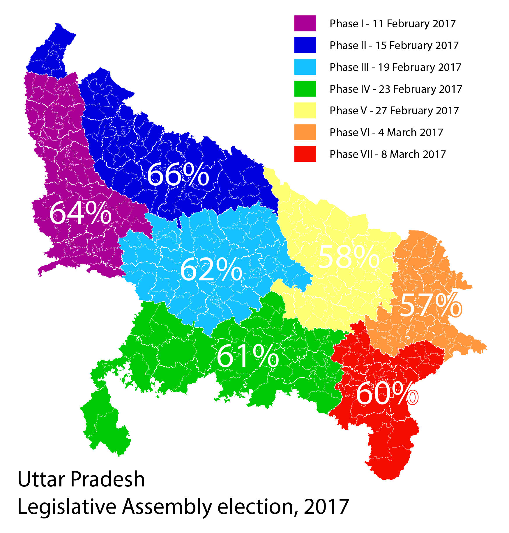 A map showing the polling dates for various districts in the 2017 Uttar Pradesh Legislative Assembly election.